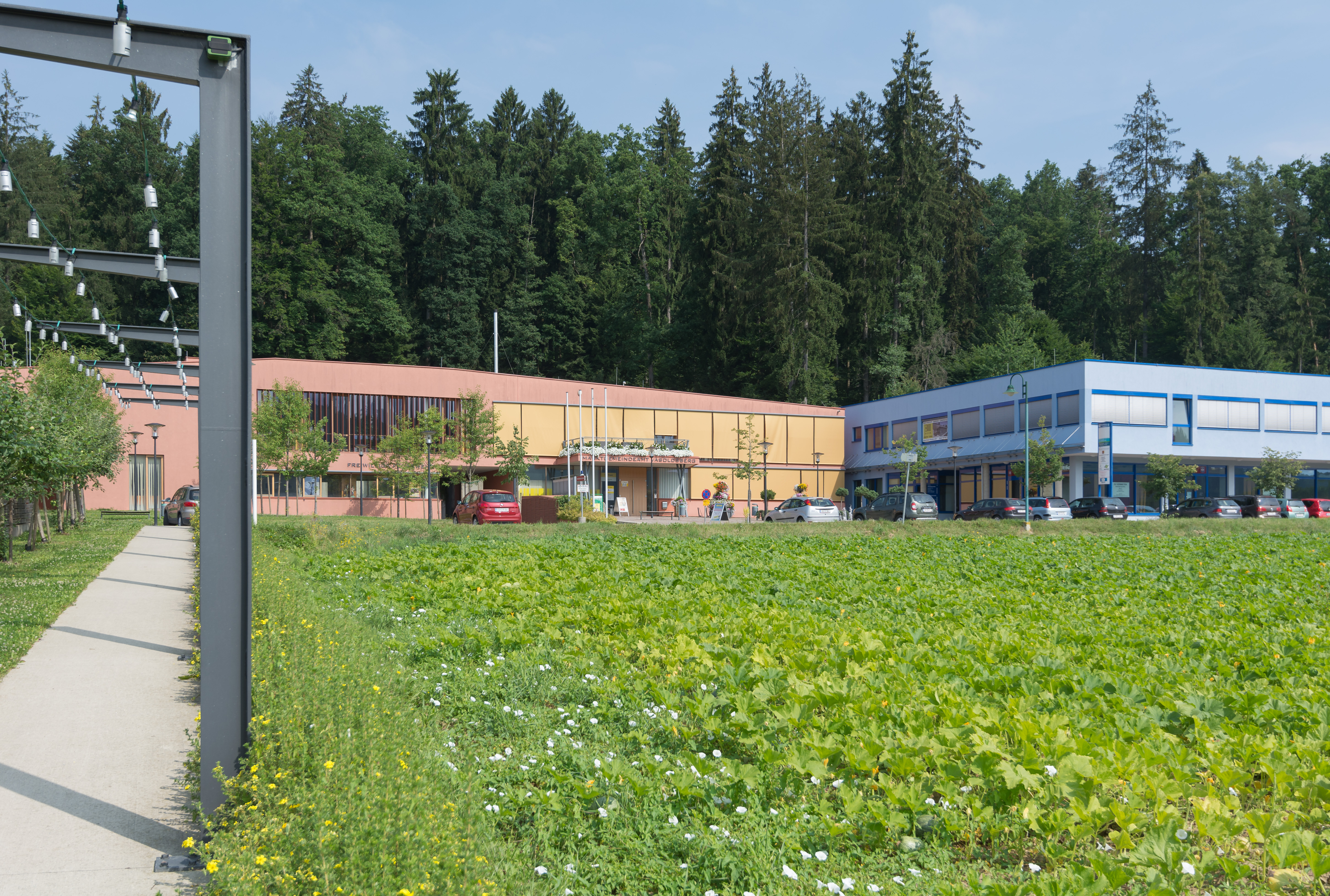 The community center (town hall) was opened in 2007.